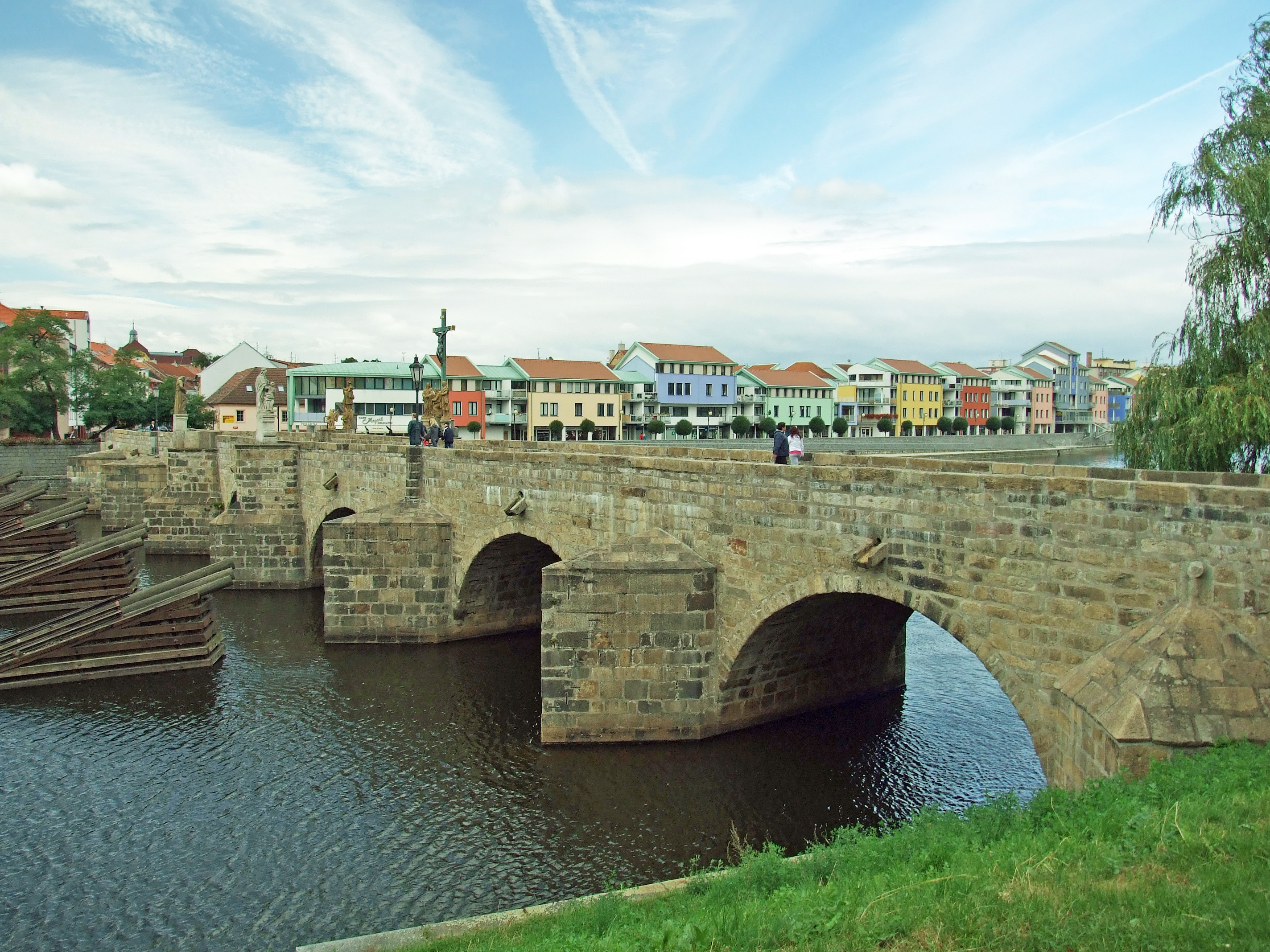 Písek Stone Bridge, South Bohemian Region, CZhelp